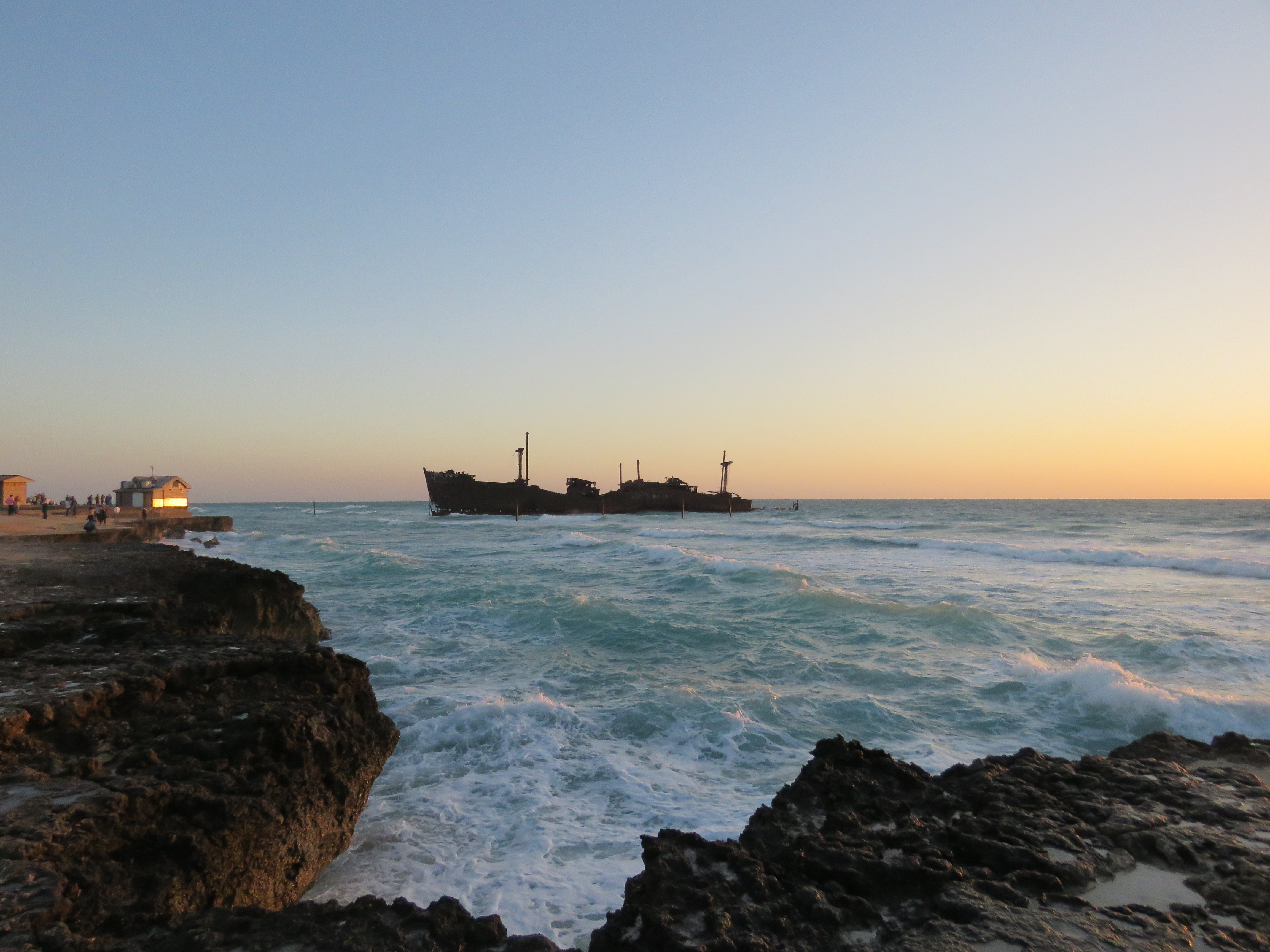 Greek wreck in Kish island Iran